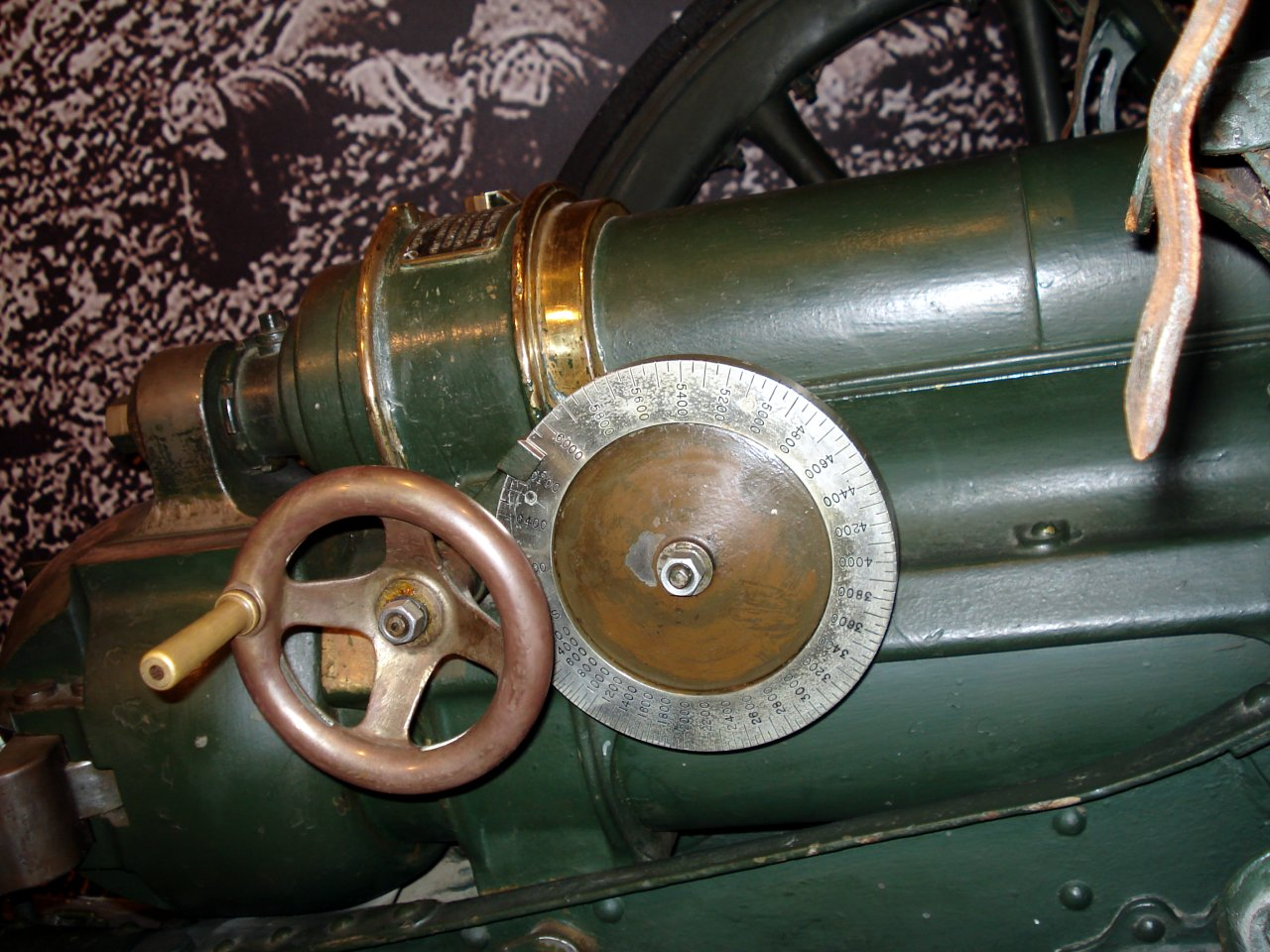 British QF 18 pounder gun at the Canadian War Museum in Ottawa.